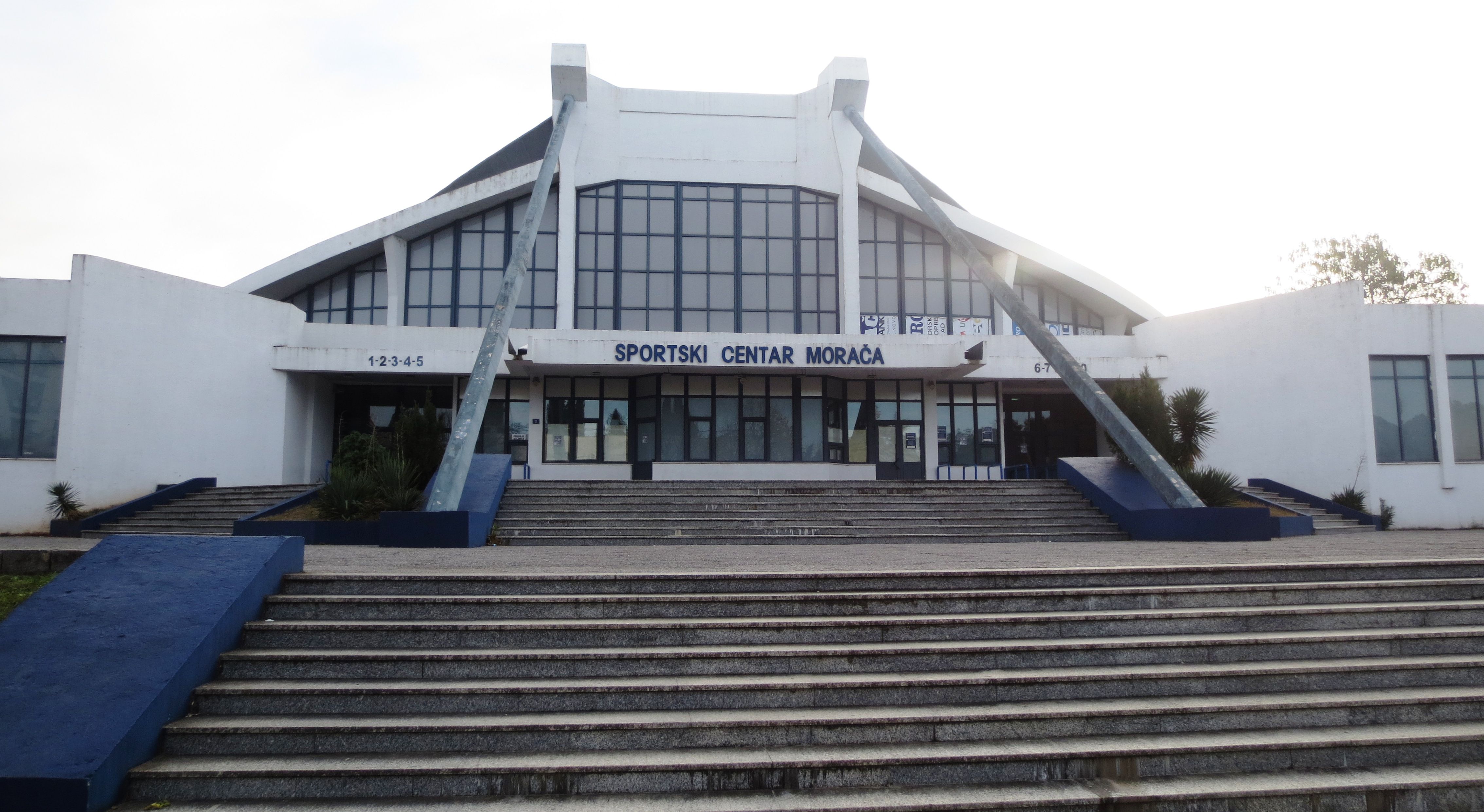 The Moraca Sports Center is a sporting complex situated at the west bank of the Moraca River in Central Podgorica, Montenegro